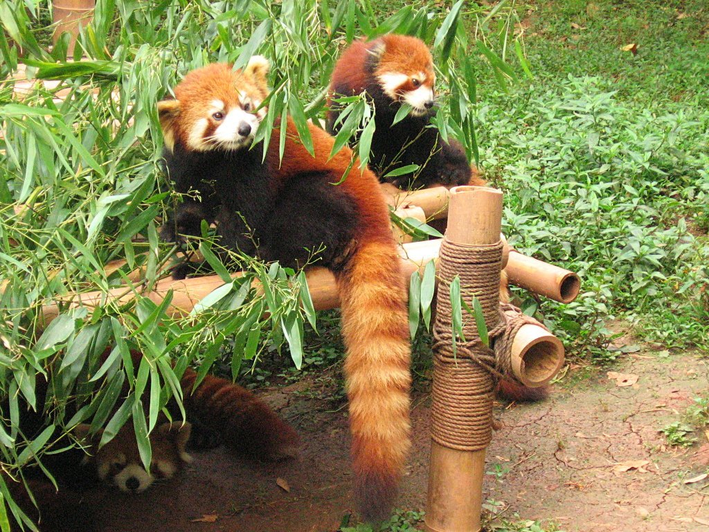 Red Panda (Ailurus fulgens) at Chengdu's Giant Panda Breeding Research Base.